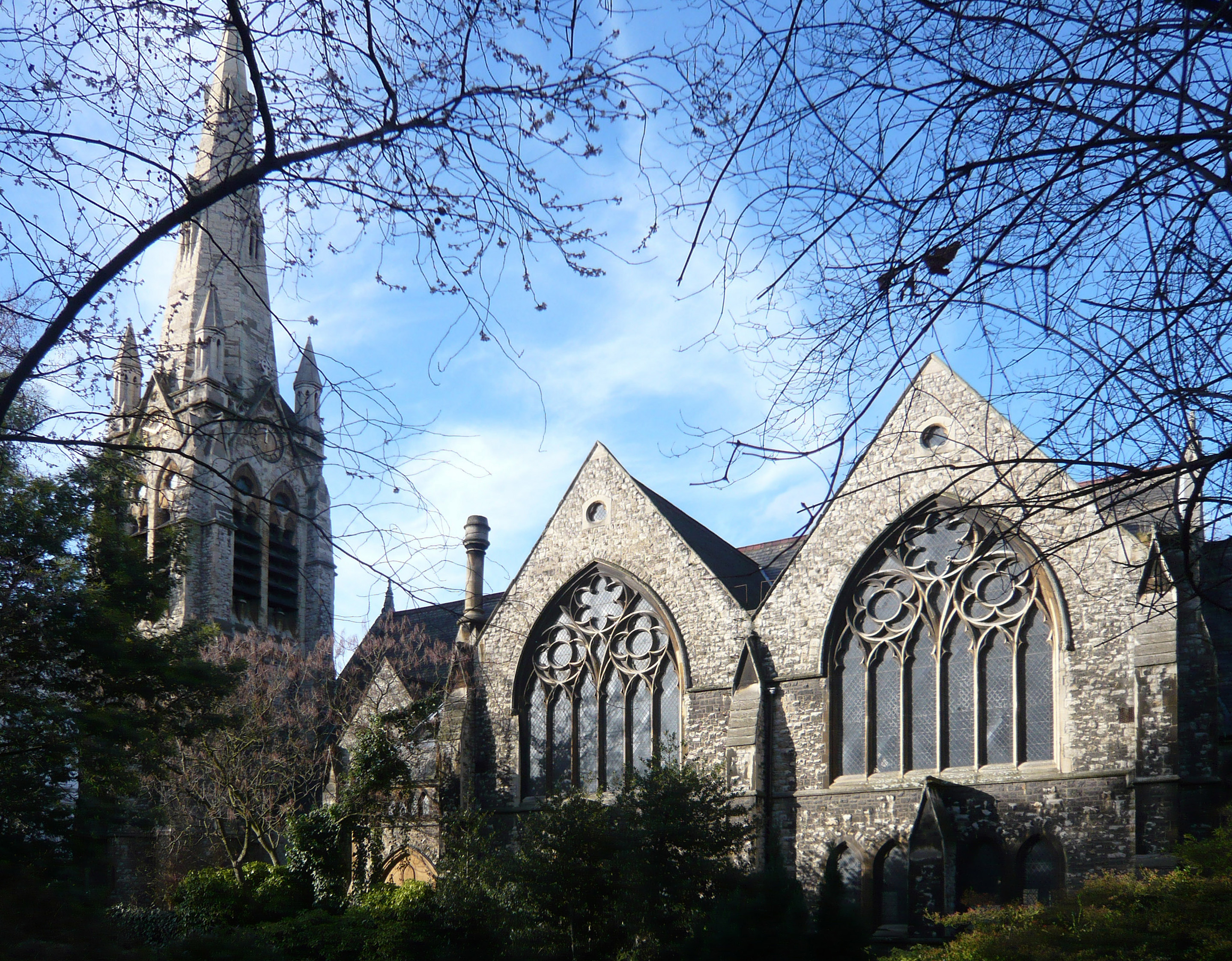 Southern exterior of the Church